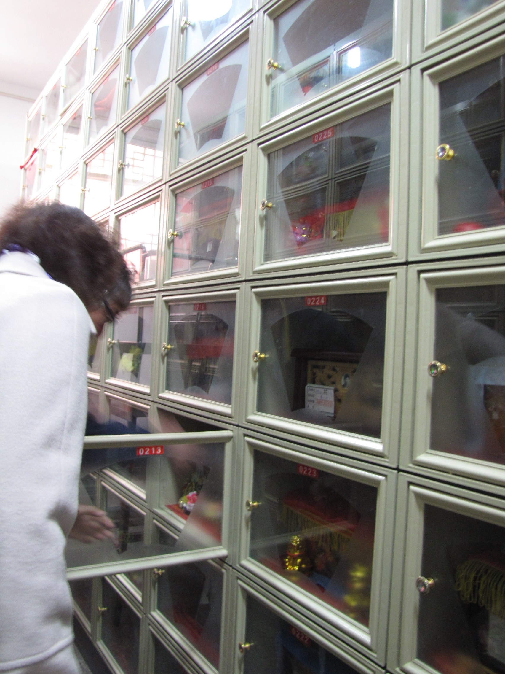 China Dongbei. Modern collective tomb. Cases for the ashes of deceased persons.